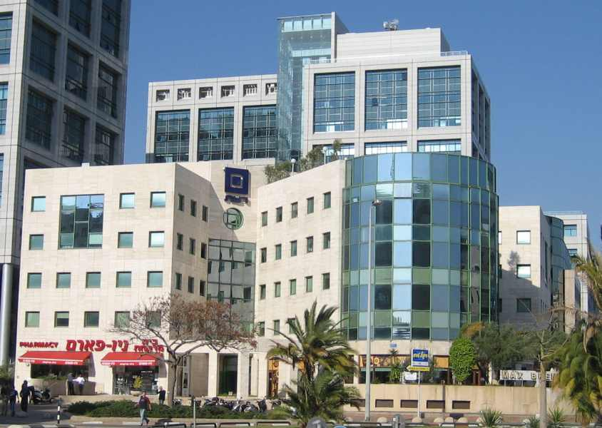 Headquarters of Israeli channel 2 concessionaire "Reshet", in Tel-Aviv. Date: February 28, 2007